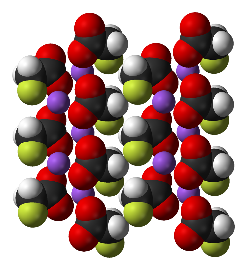 Space-filling model of part of the crystal structure of sodium fluoroacetate, Na[C2H2FO2]. X-ray crystallographic from B. M. Vedavathi and K. Vijayan (March 1977). "Radioprotectant sodium fluoroacetate". Acta Cryst. B33 (3): 946-948.